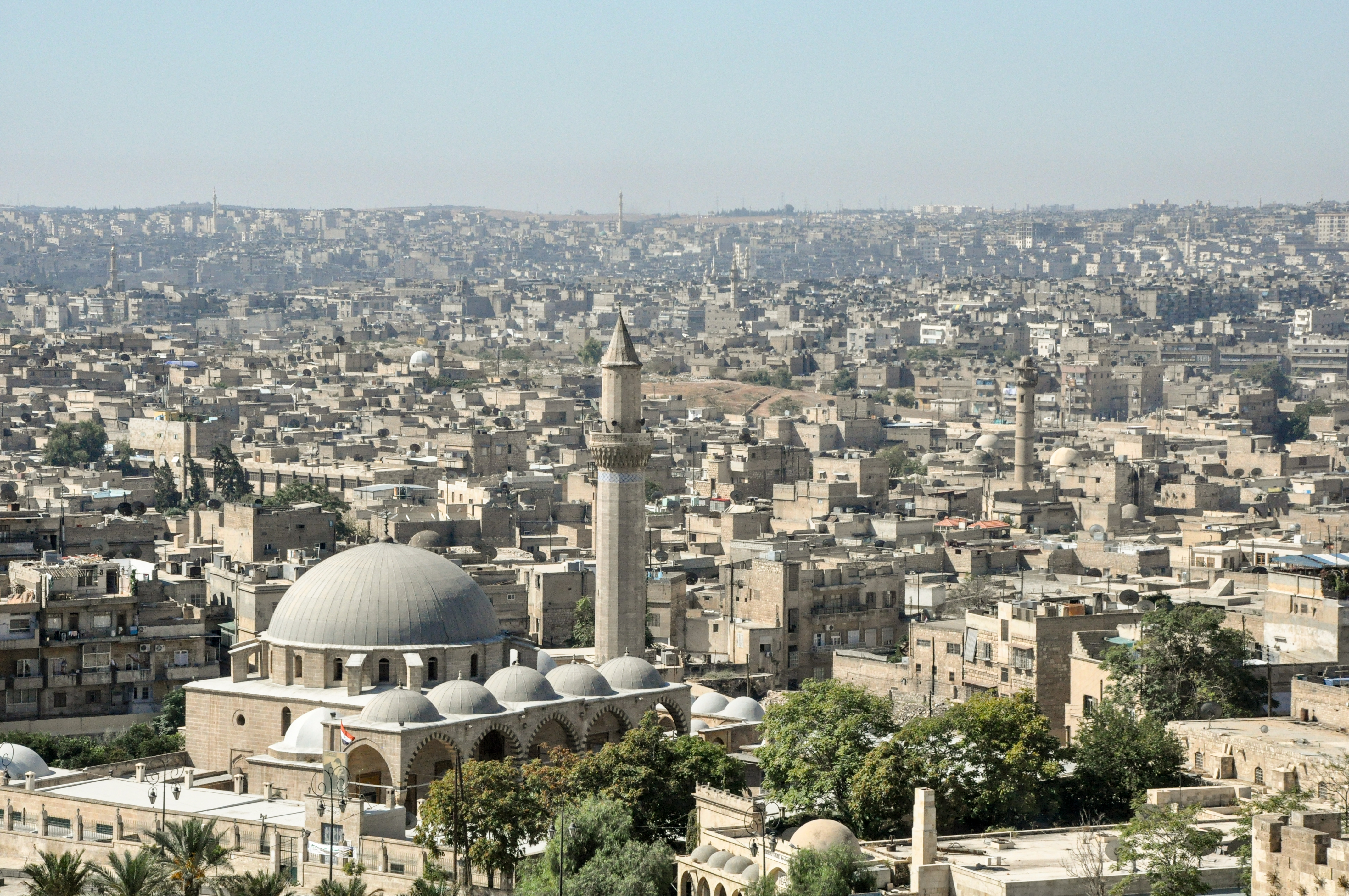 Khusruwiyah mosque and Aleppo view